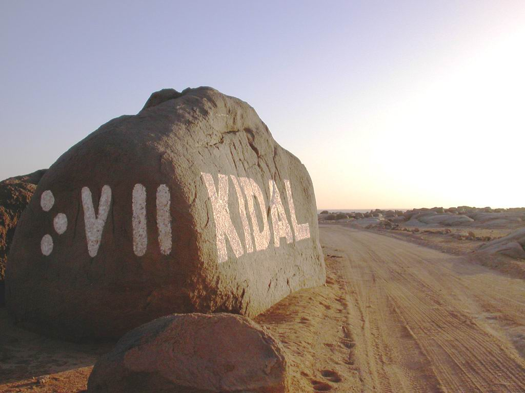 Entry of Kidal, a city in Mali. On the left, Kidal is written in Tifinagh script.